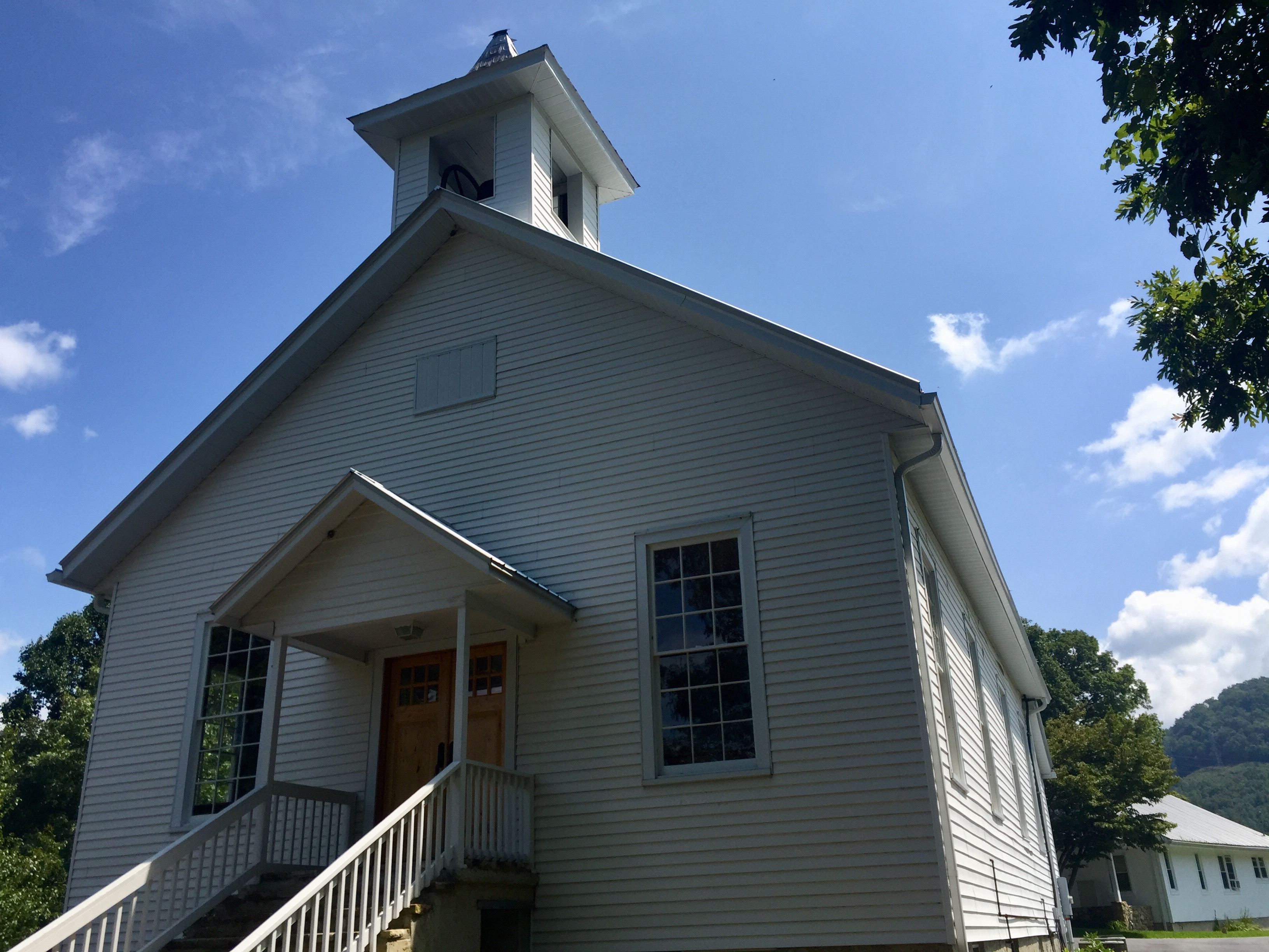 This is the Tuckasegee Wesleyan Church, located on a hilltop in the community of Tuckasegee, North Carolina. The church was constructed circa the turn of the 20th Century, and is a well-known landmark to travelers on North Carolina Highway 107 between Cullowhee and Glenville.